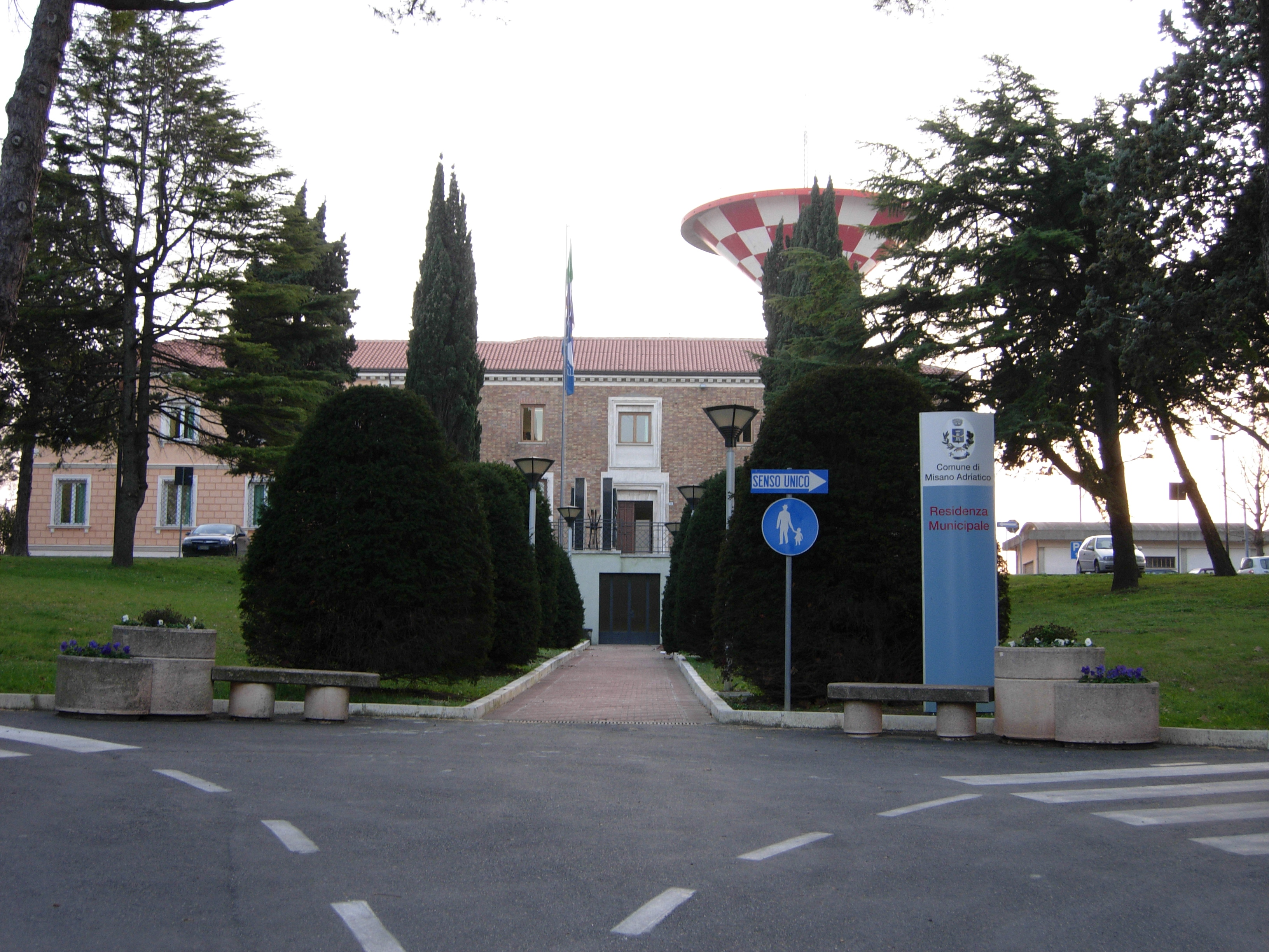 Misano Adriatico (province of Rimini), town hall